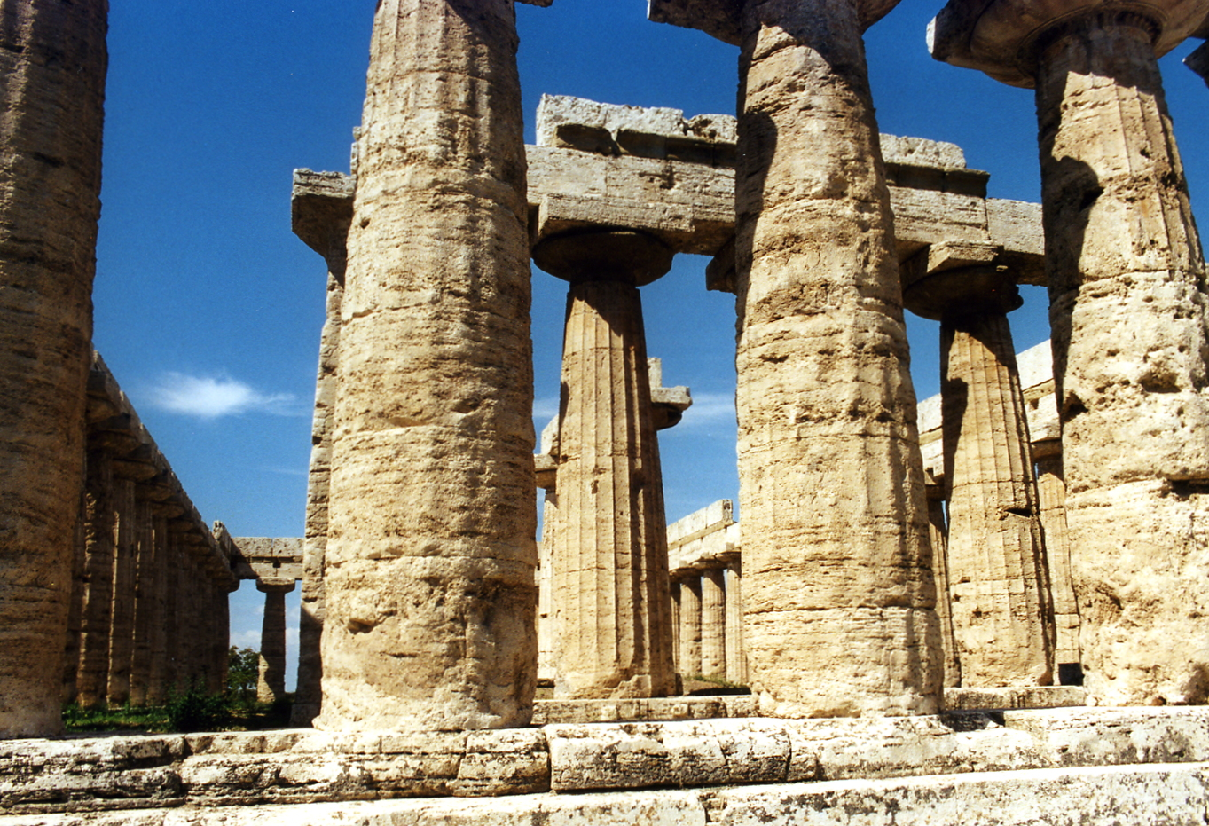 Description:The ancient Greek temple to Hera (Heraion) (also called "the Basilica") of Paestum in Italy. ca. 540 b.C. Source: photo taken by --Michael Johanning 2001 (UTC)